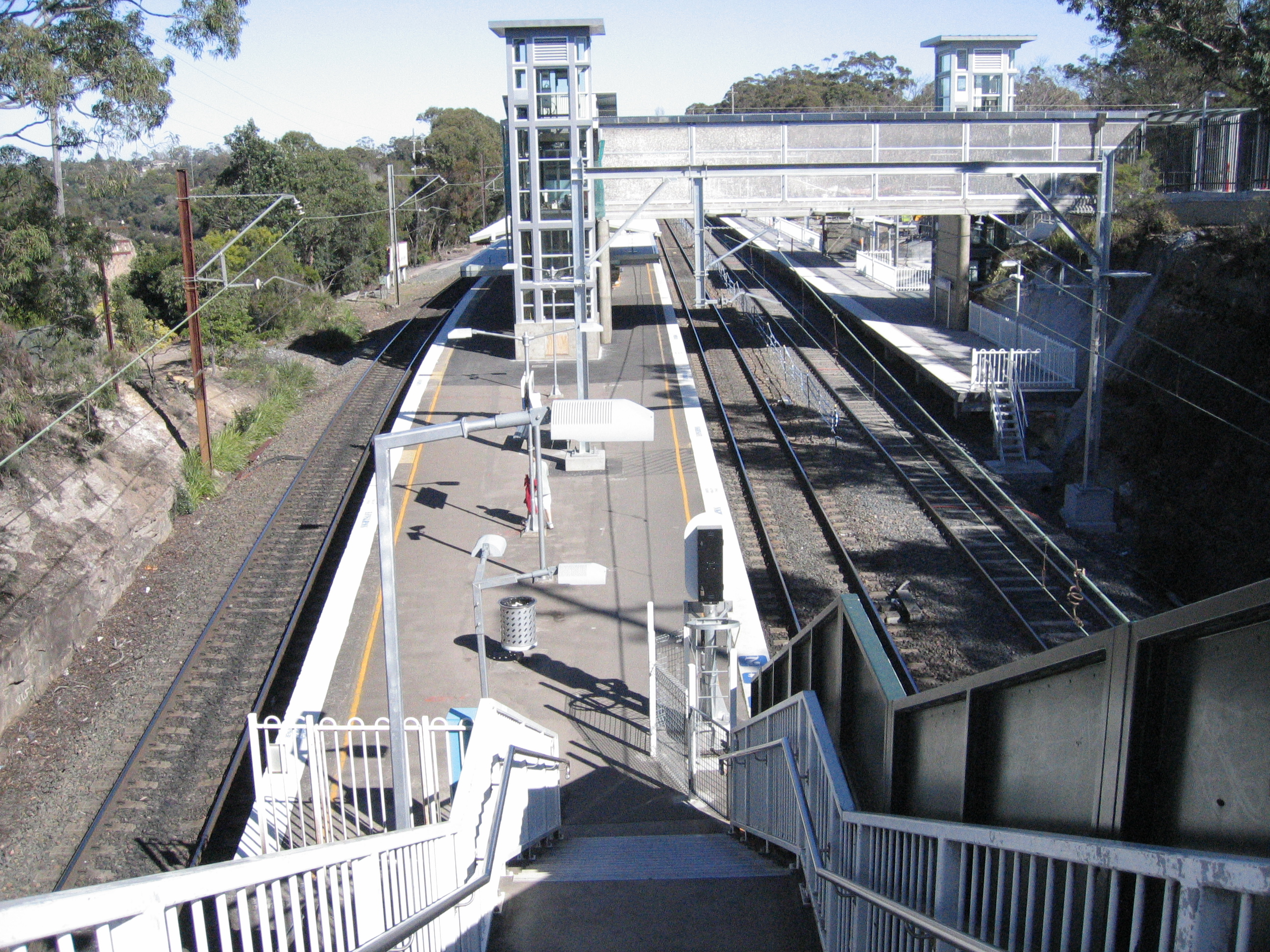 Berowra Railway station, looking south.